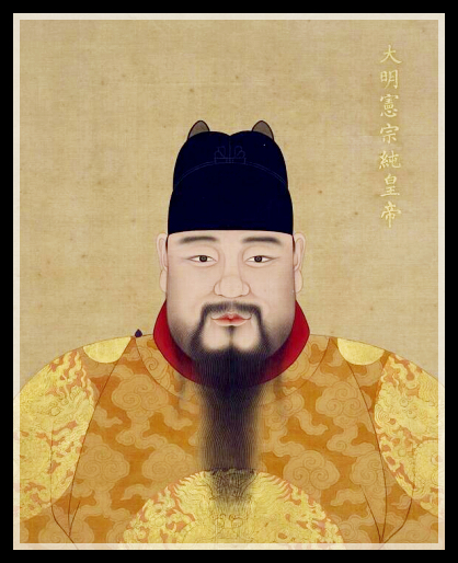 Portrait of Emperor Huizong of Ming Dynasty China